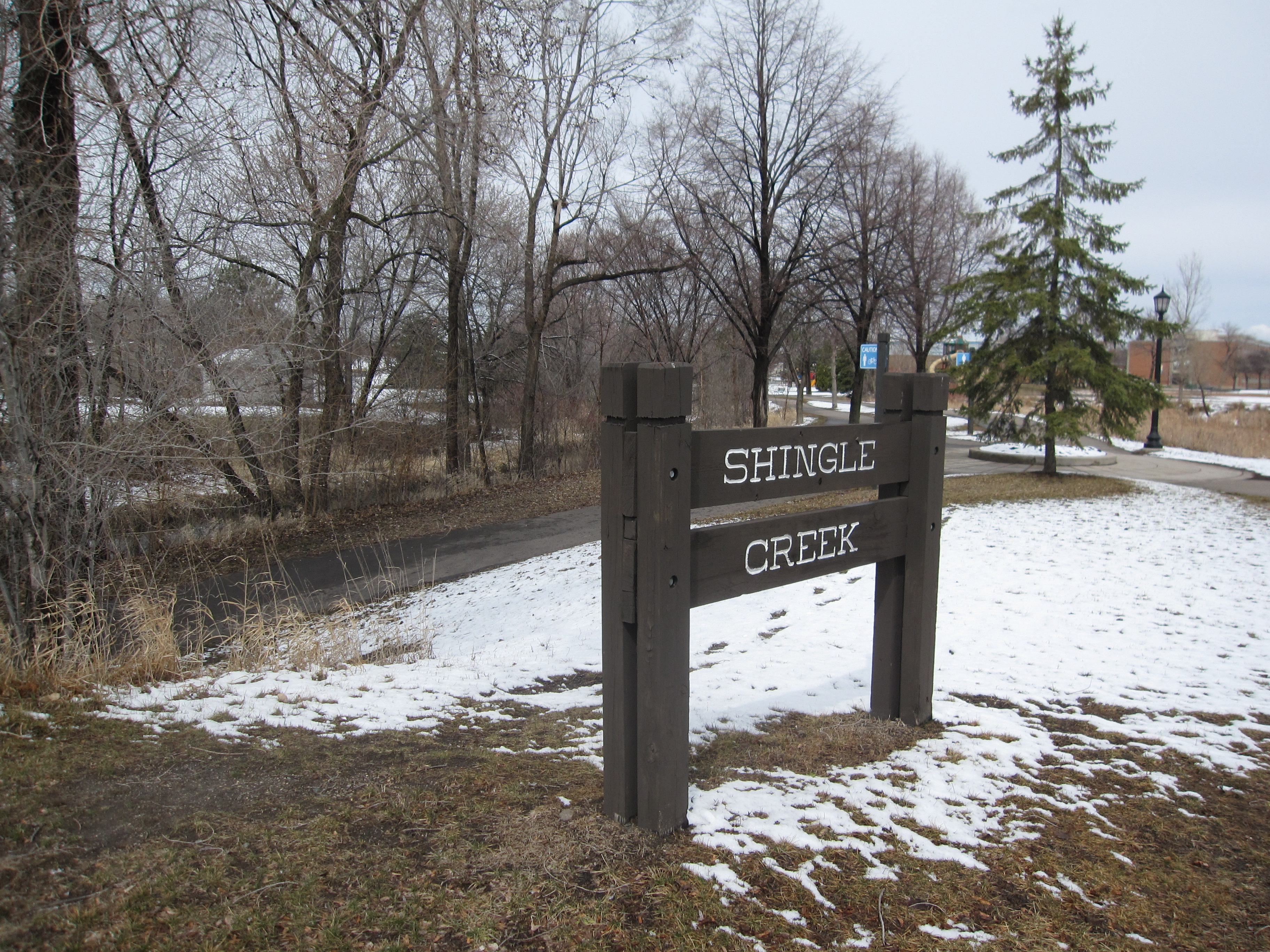 This is the signpost for Shingle Creek, Minneapolis.